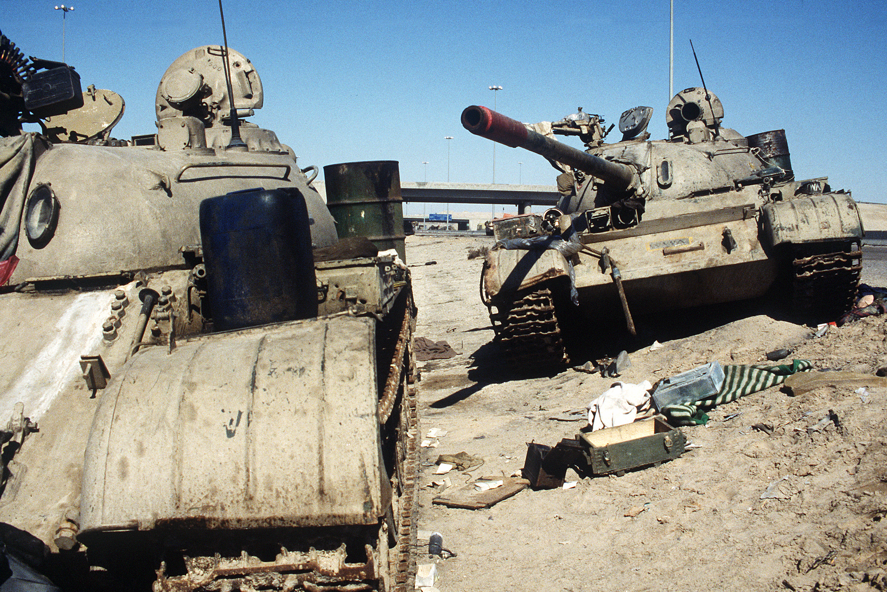 An Iraqi T-54, T-55 or Type 59 and T-55A lie abandoned on the Basra-Kuwait Highway near Kuwait City after the release of Iraqi forces from the city during Operation Desert Storm.